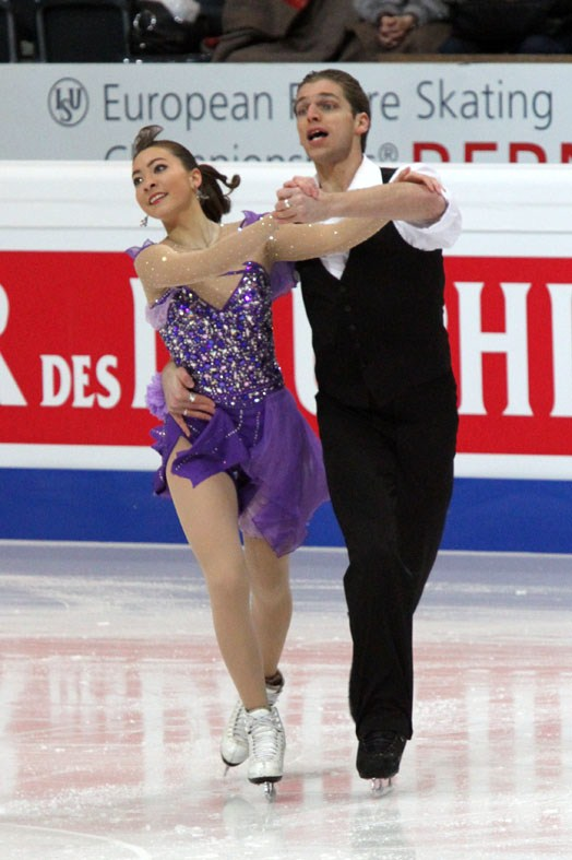 Allison Reed and Otar Japaridze at the 2011 European Figure Skating Championships